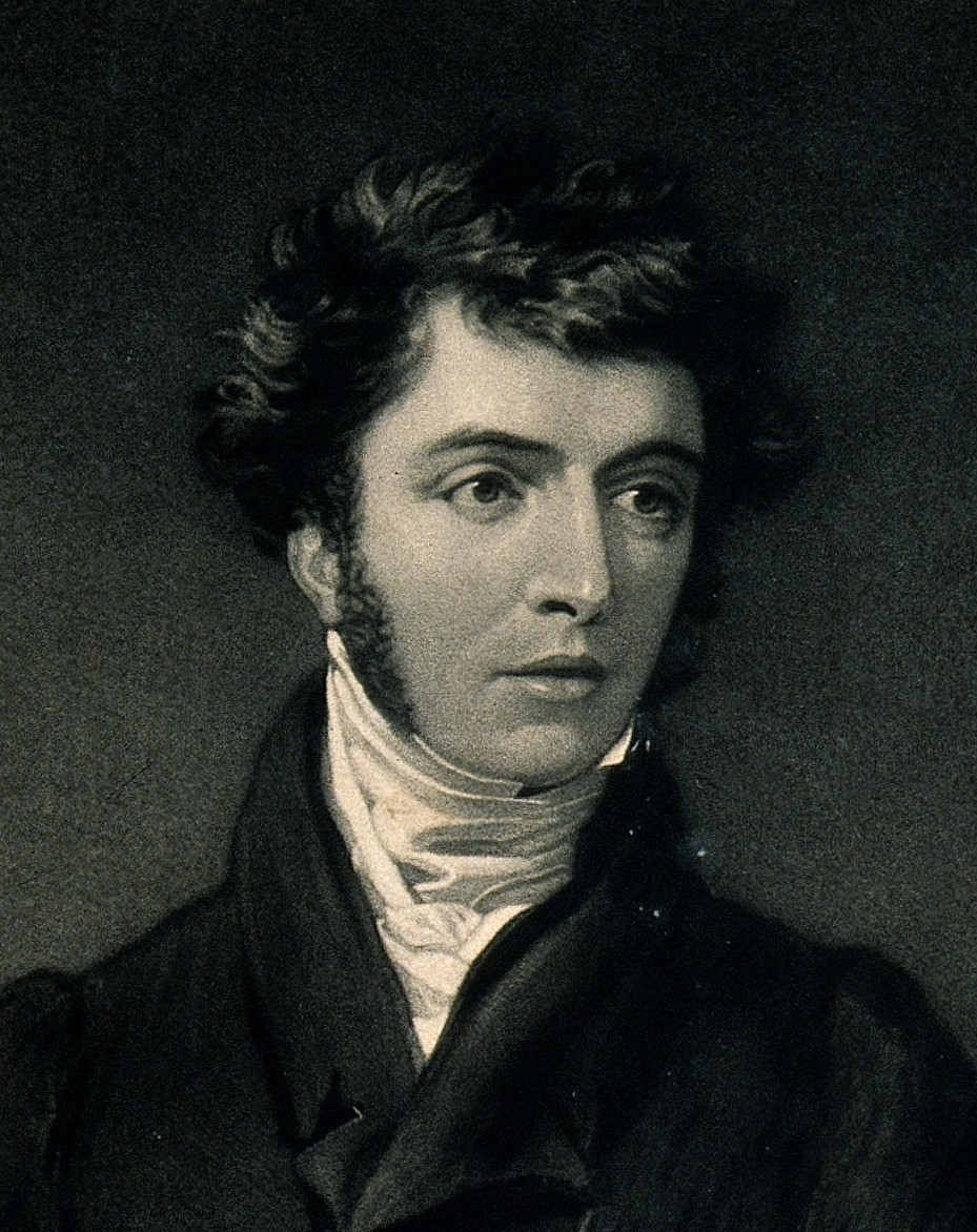 Richard Dugard Grainger. Mezzotint by T. Lupton, 1827, after T. Wageman. Iconographic Collections Keywords: portrait prints; mezzotints; T. Wageman; Thomas Goff Lupton; Richard Dugard Grainger